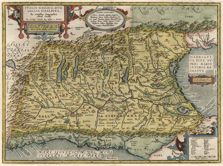 Map of the Gallia Cisalpina